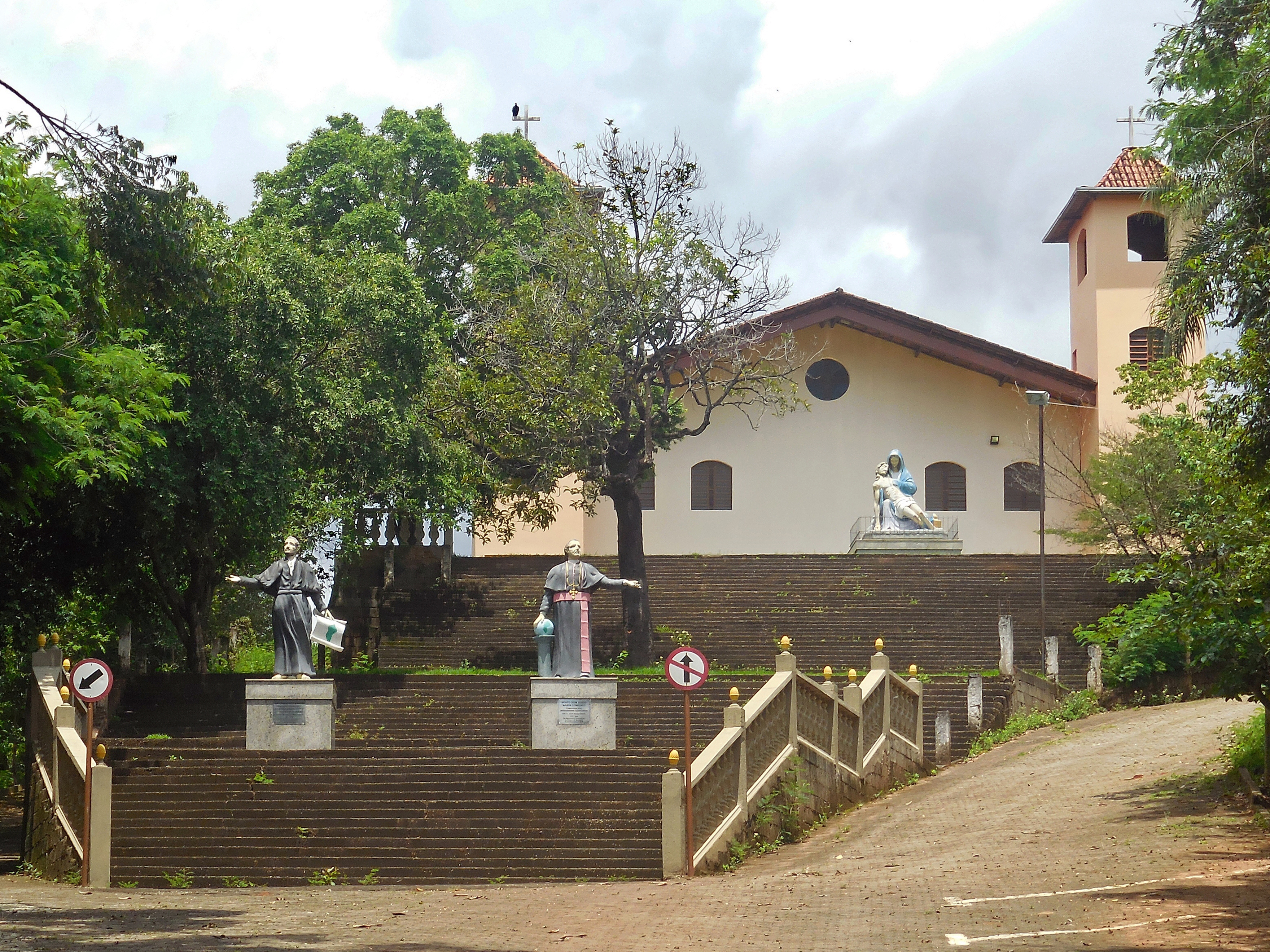 View of the Shrine of Our Lady of Piety, in Coronel Fabriciano, Minas Gerais, Brazil.